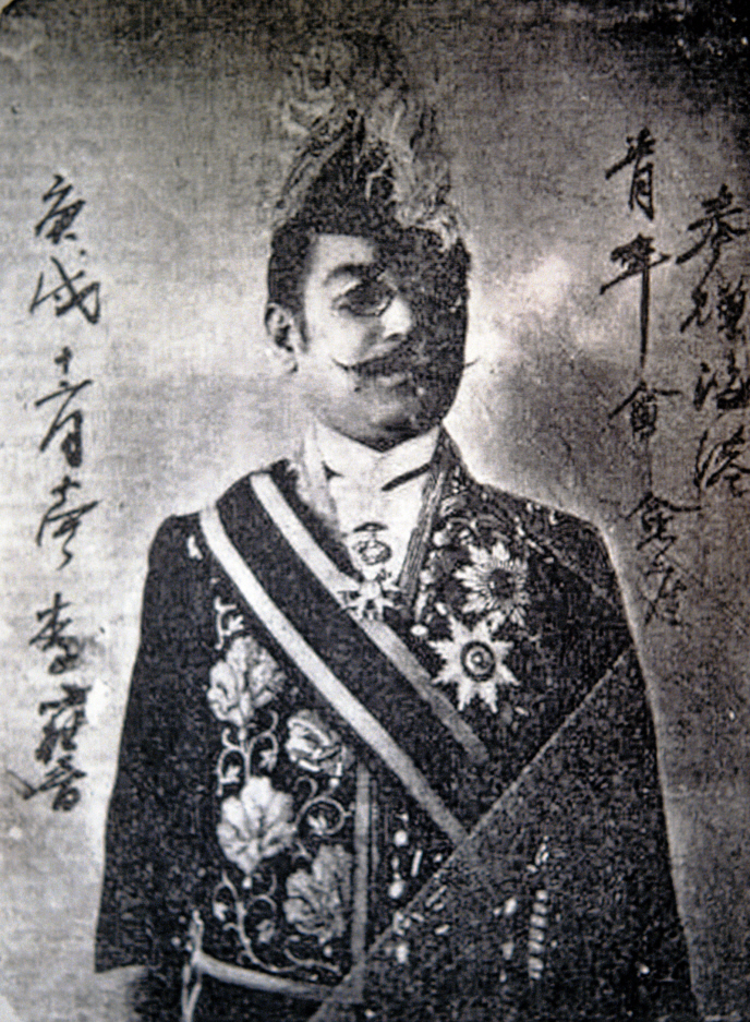 Yi Beom-jin(1852∼1911), official of Korean Empire, later became involved in Korean independence movement against imperial Japan.